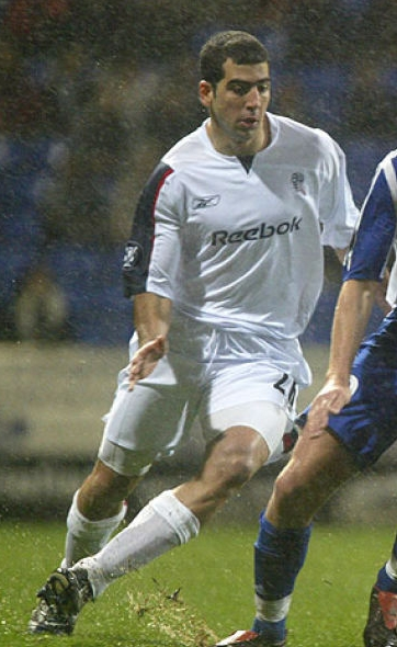 Tal Ben-Haim in action for Bolton Wanderers F.C.